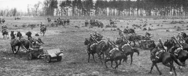 Wielkopolska Brygada Kawalerii, Battle of Bzura, central Poland, 1939.